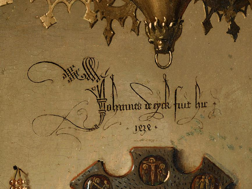 Crop of the painting The Arnolfini Portrait